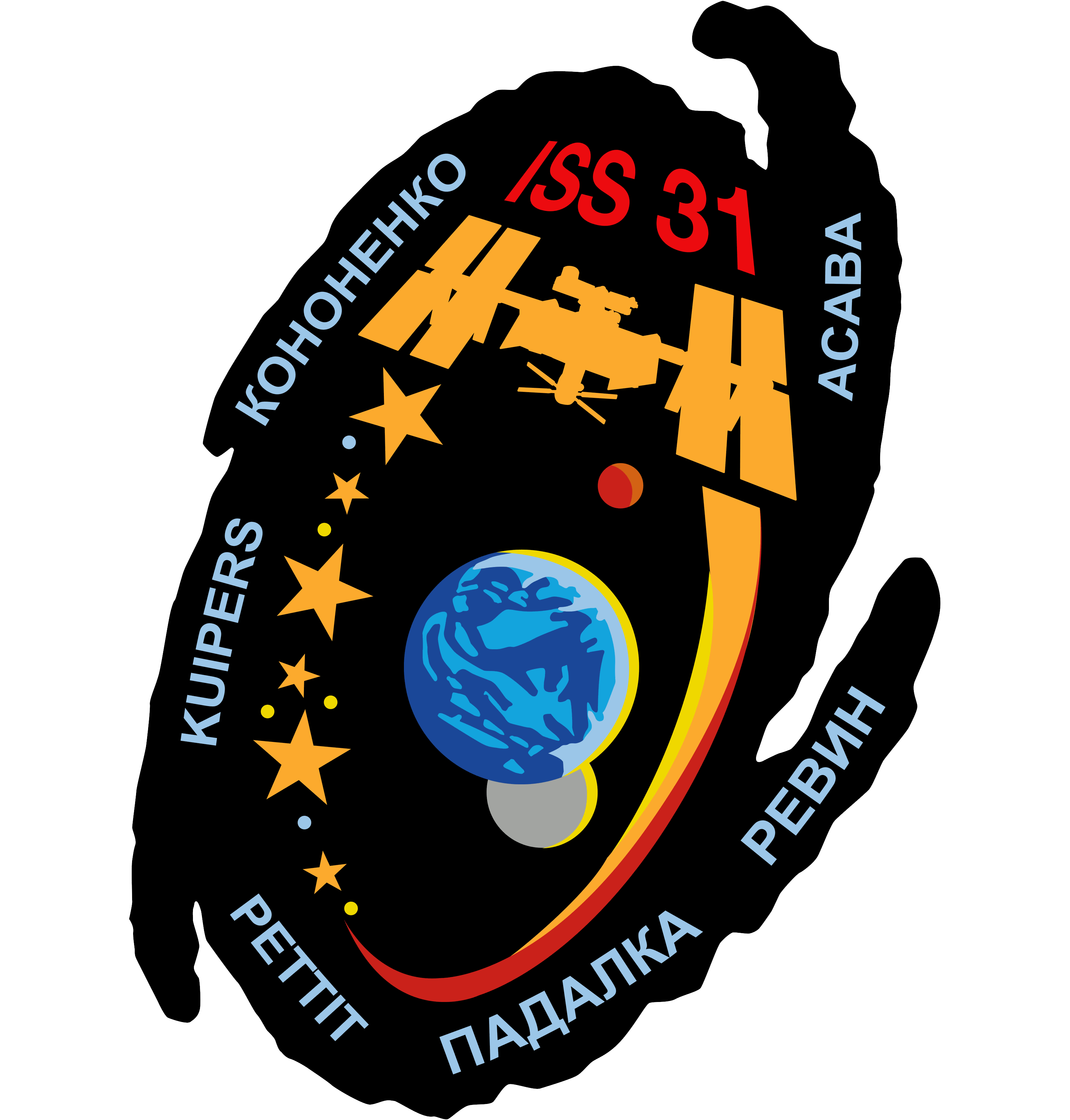 Thin crescents along the horizons of Earth and its moon depict International Space Station (ISS) Expedition 31. The shape of the patch represents a view of our galaxy. The black background symbolizes the research into dark matter, one of the scientific objectives of Expedition 31. At the heart of the patch are Earth, its moon, Mars, and asteroids, the focus of current and future exploration. The ISS is shown in an orbit around Earth, with a collection of stars for the Expedition 30 and 31 crews. The small stars symbolize the visiting vehicles that will dock with the complex during this expedition.